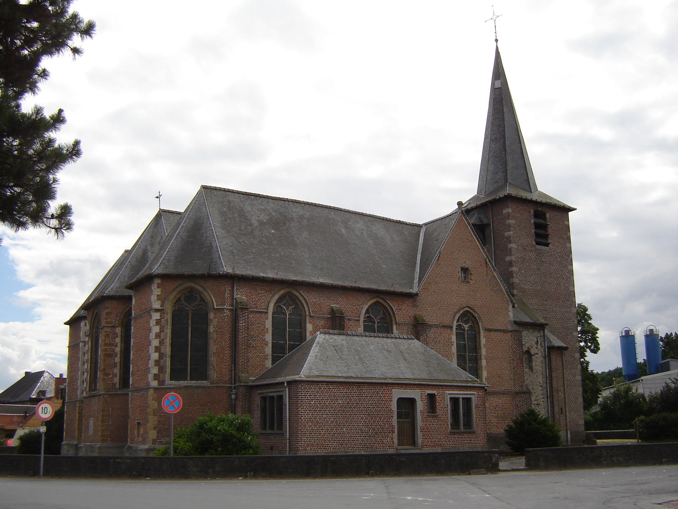 Church of Saint Martin in Escanaffles, Celles, Hainaut, Belgium.